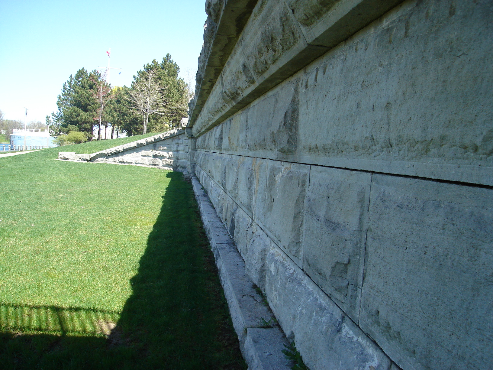 Stonework of the now-infilled stone aqueduct of the Second Welland Canal in Welland, Ontario. Built in 1840s.